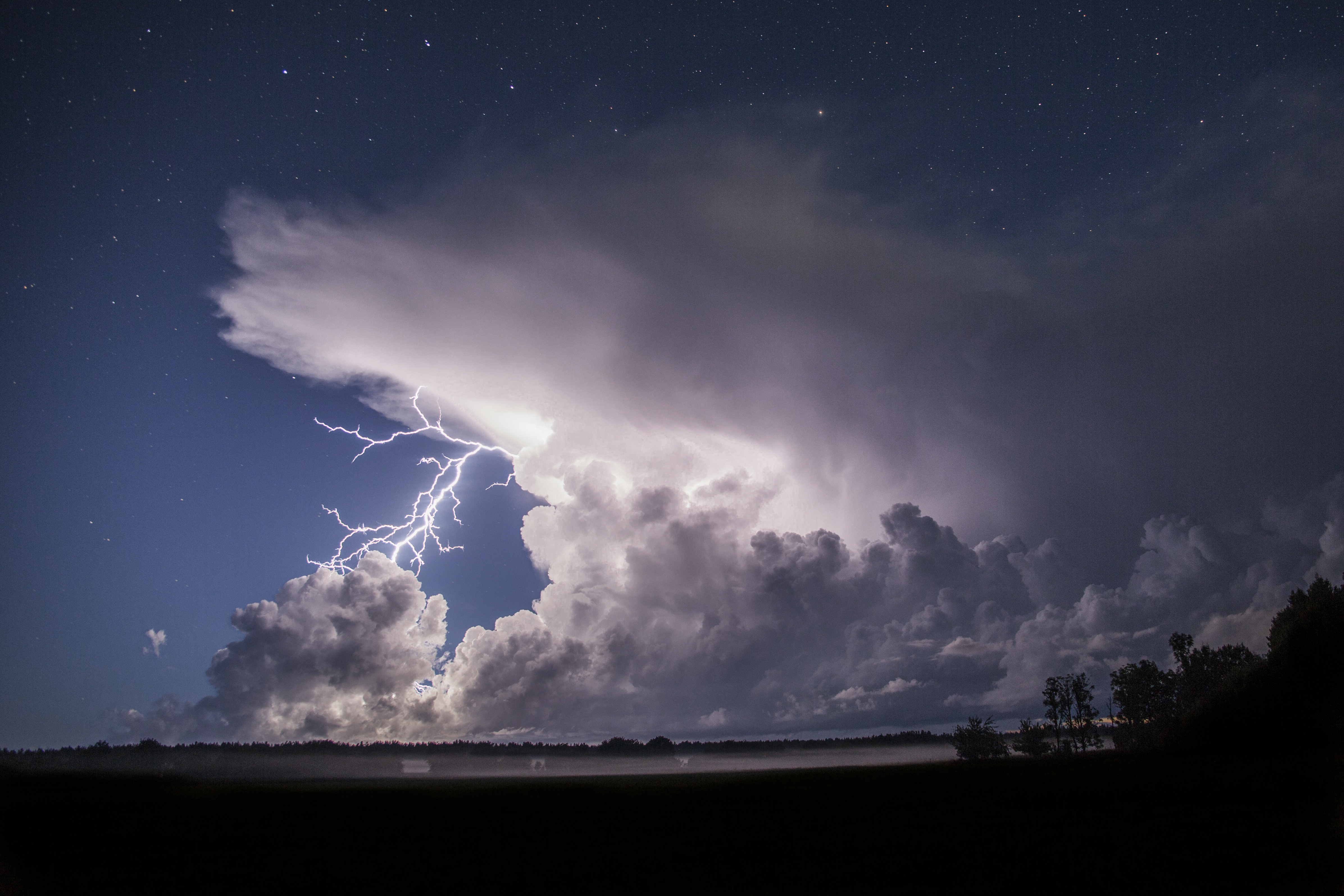 Lightning in Saaremaa island. Distance is ca 20 km.